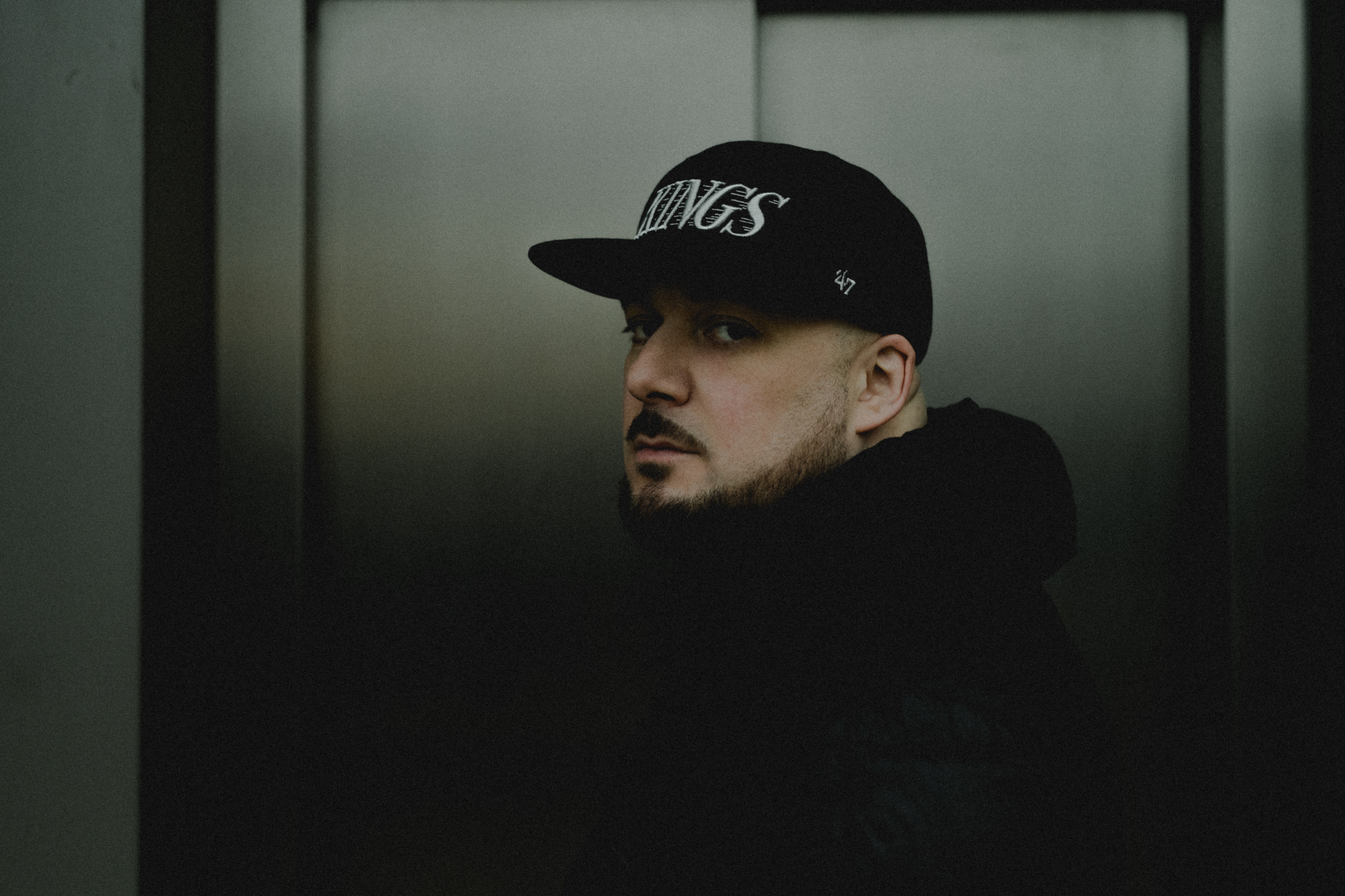 Pressefoto des Rappers Kool Savas